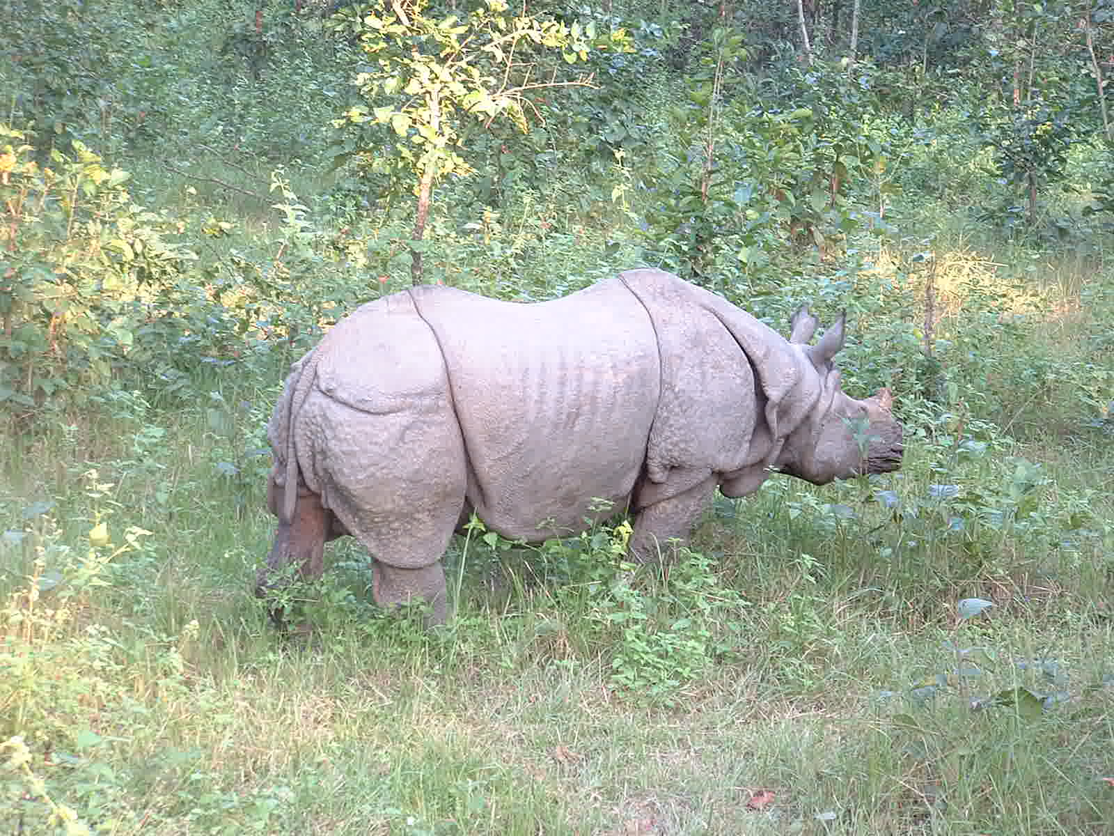 Rhinoceros unicornis in the Chitwan National park, Nepal. Taken with a Fujifilm FinePix 2800 Zoom.